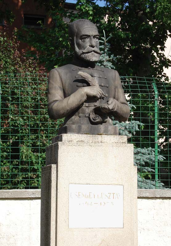 Statue of Gusztáv Csengey (1842–1925), Downtown evangelical church, Miskolc, Hungary. Sculptor:Dezső Borsodi Bindász